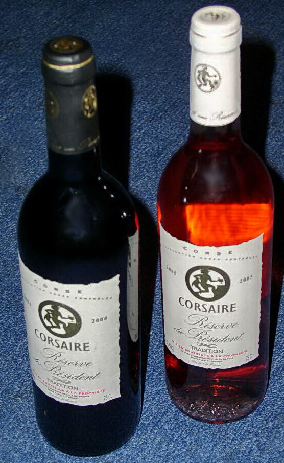 Two bottles of Vin de Corse